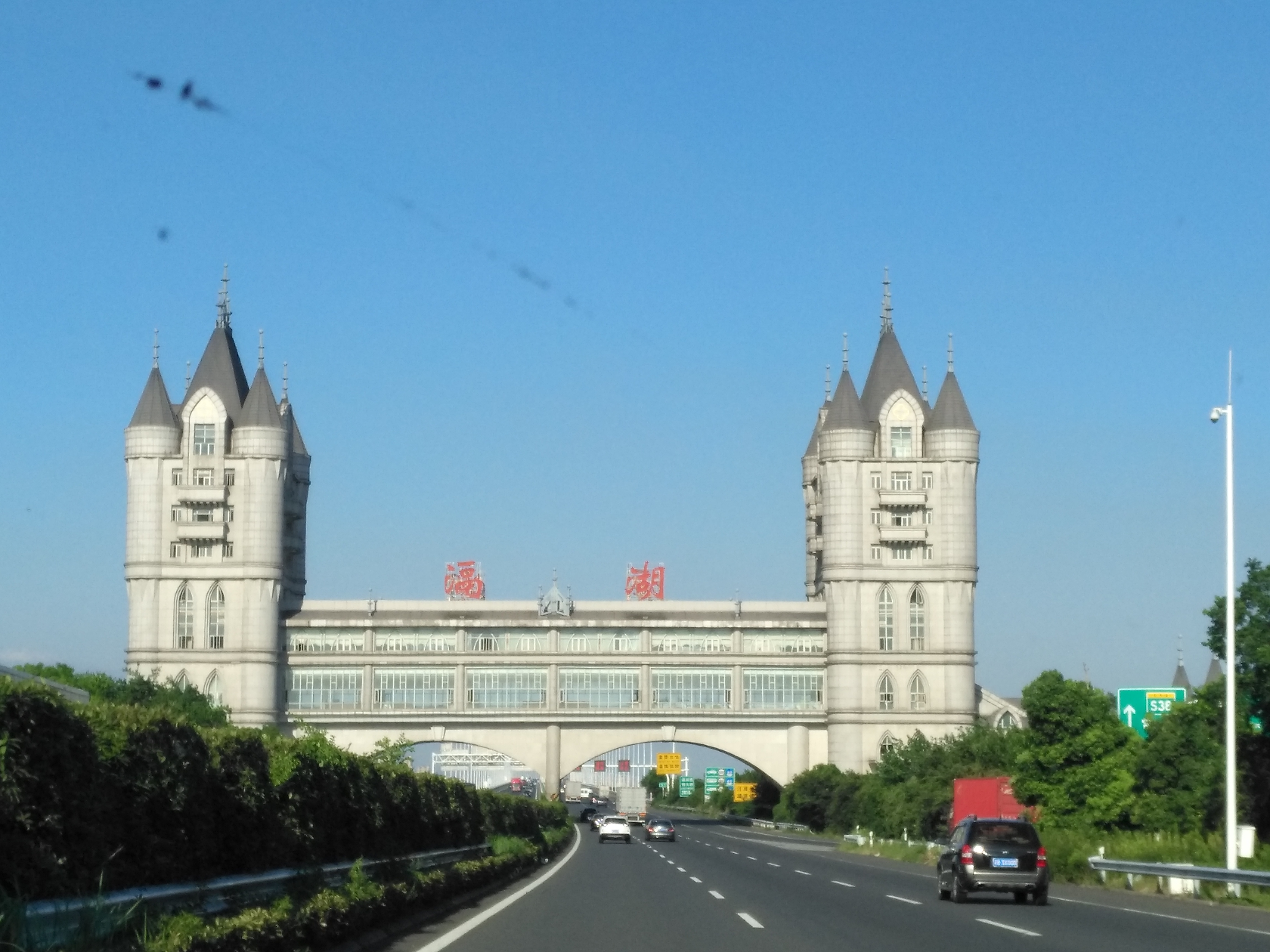 Gehu Rest area of S38 Changshu-Hefei Expressway